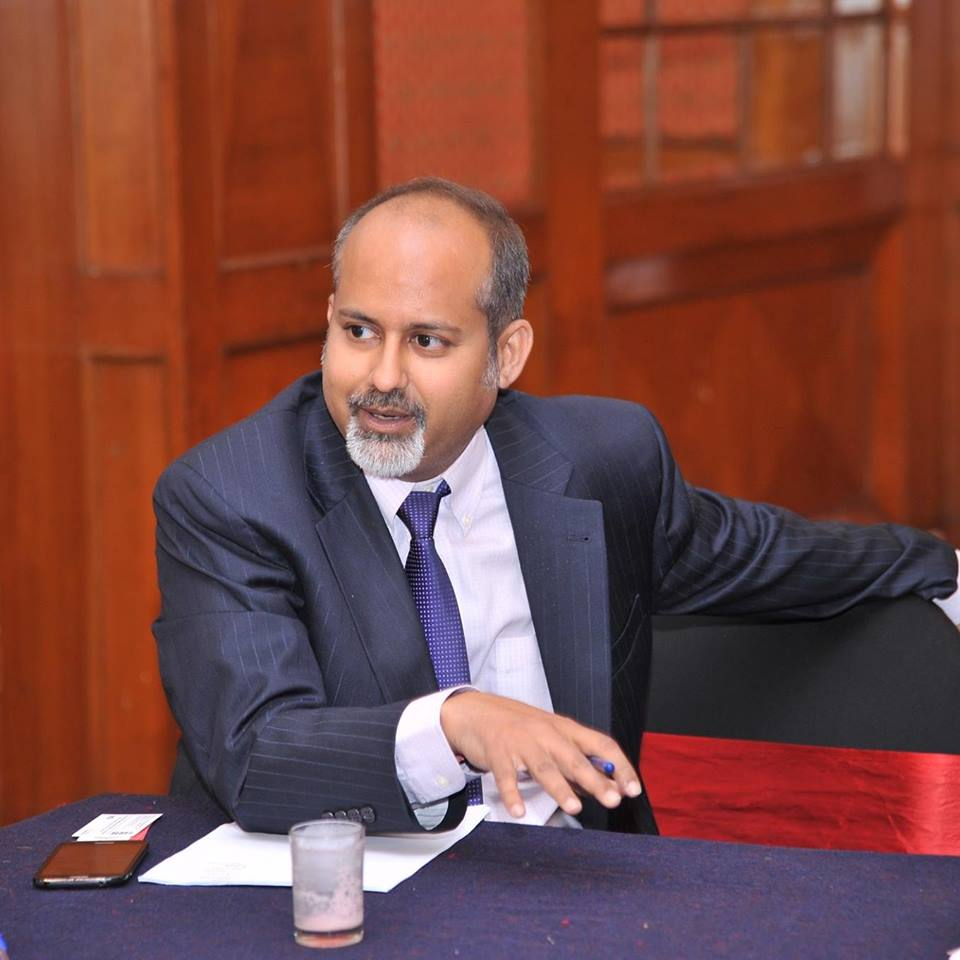 IIT kanpur